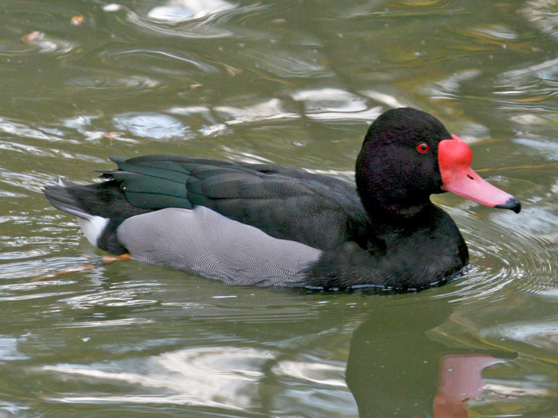 Rosy-billed Pochard (Netta peposaca) at Sylvan Heights Waterfowl Park in Scotland Neck, North Carolina.